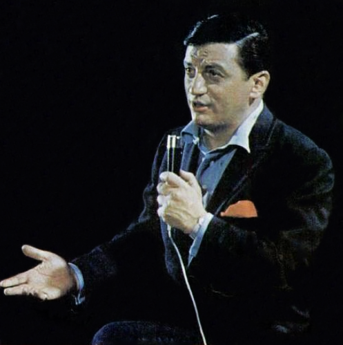 Trade ad for Jimmy Roselli's album Saloon Songs.To better adapt it to his respective Wikipedia article, the ad was cropped and cleaned in a graphics editing program. The original can be viewed at the source below.